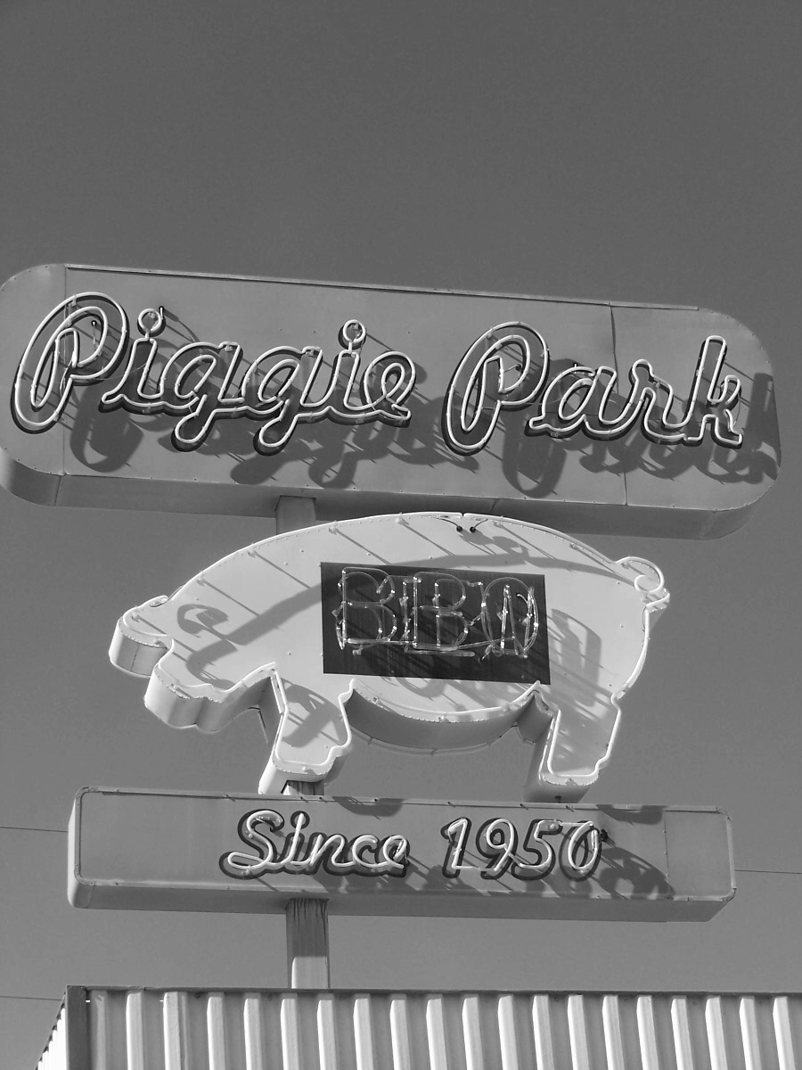 the great thing about this is place, is not only the food, but the fact that they still have the old drive-ins to order your food where they bring it out to you, just like the 50's. they used to bring the food out on roller-blades but they quit doing that for some reason. excellent bbq!